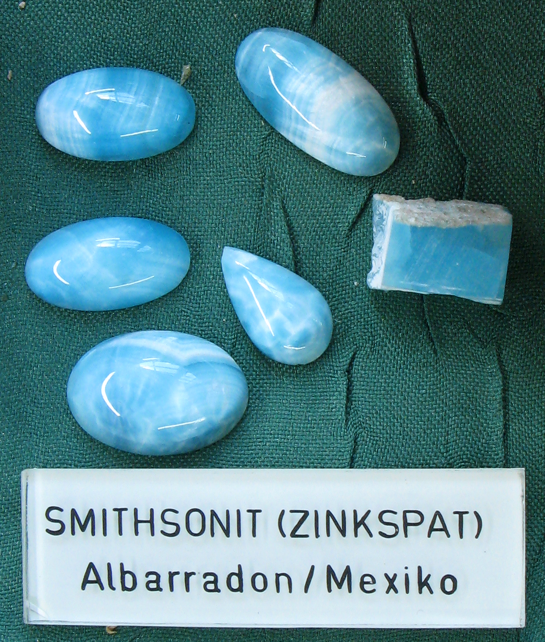 Blue, banded and cloudy Smithsonite, several cabochons Locality: Albarradon, Mexico Exposed in the Mineralogical Museum of University Bonn, Germany